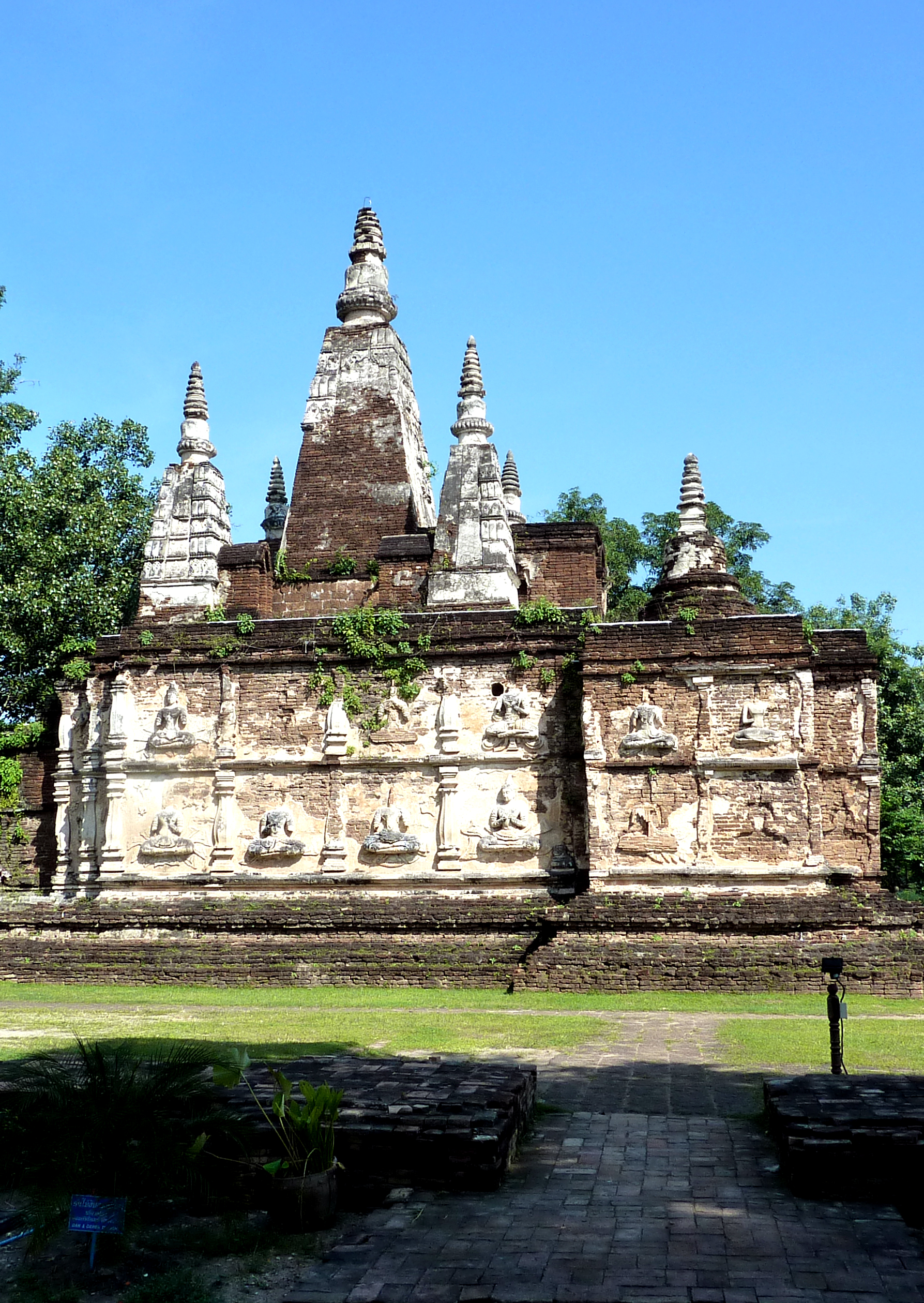 Maha Chedi of Wat Chet Yot, a buddhist temple in Chiang Mai, northern Thailand